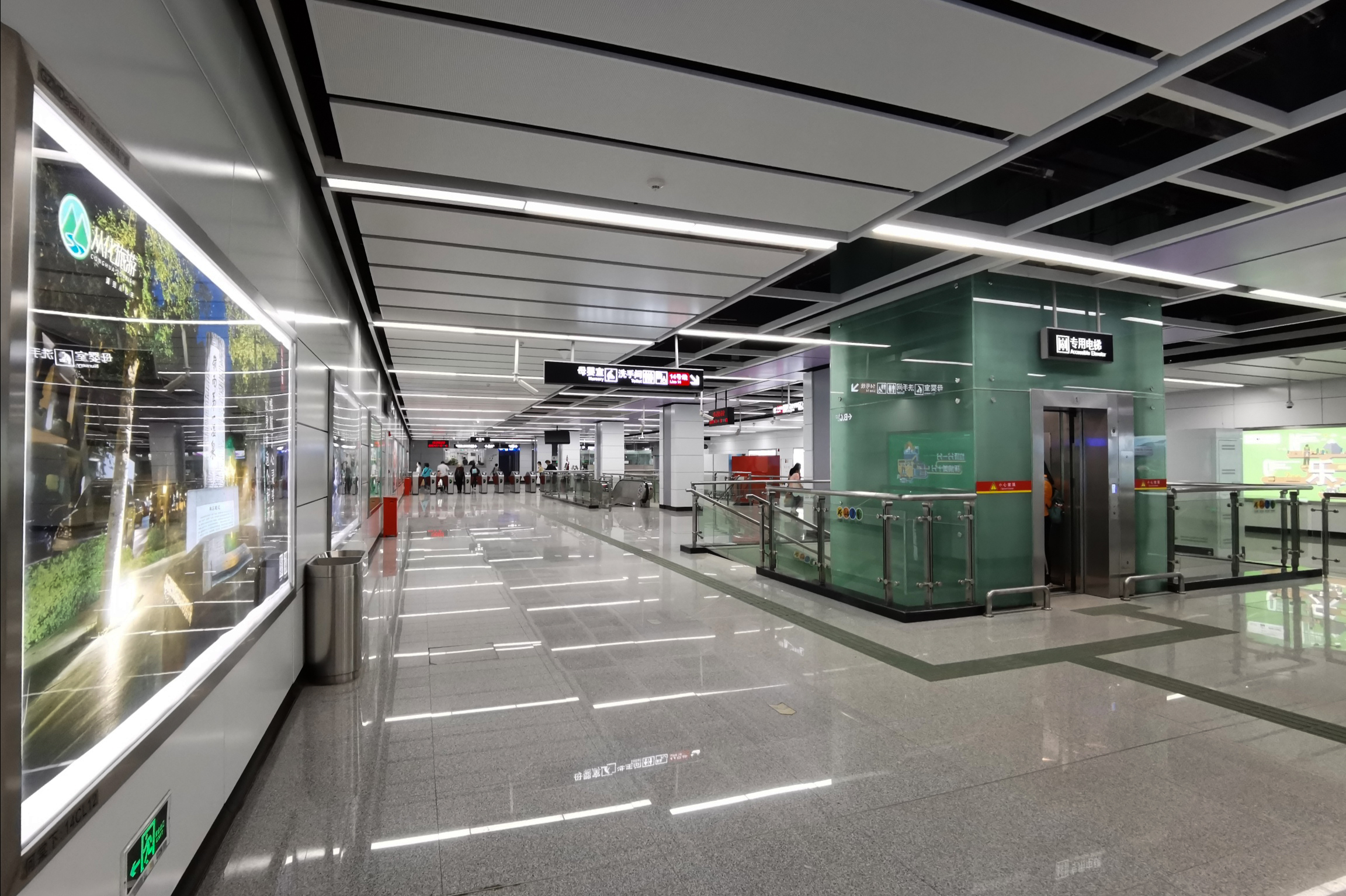 广州地铁何棠下站